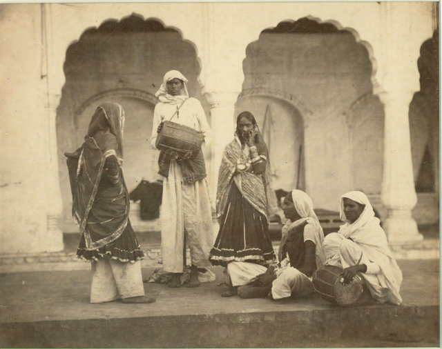 Hijra Indian entertainers